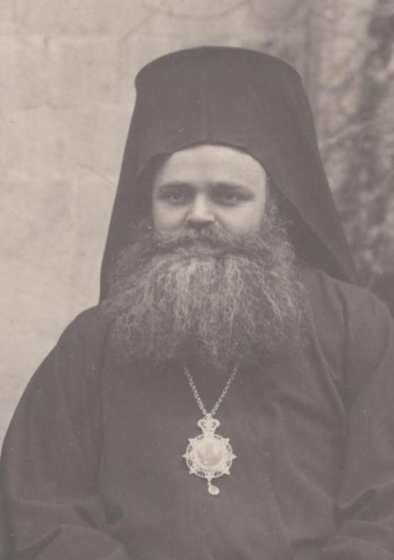 Pavel of Stara Zagora, in 1924